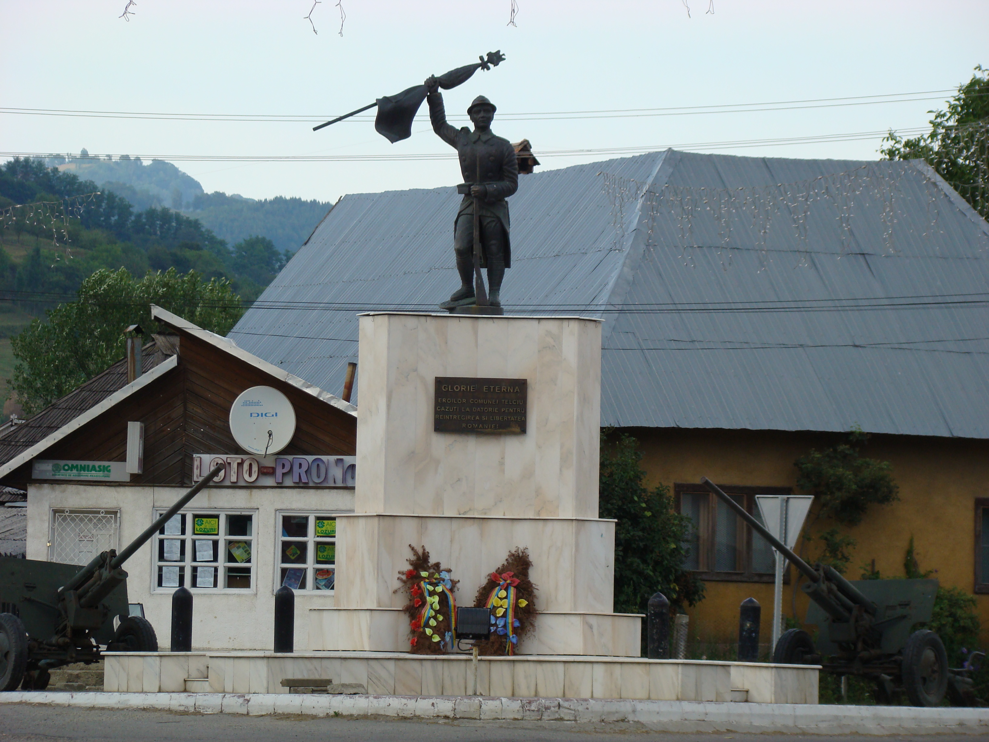 Telciu, Bistrița-Năsăud county, Romania